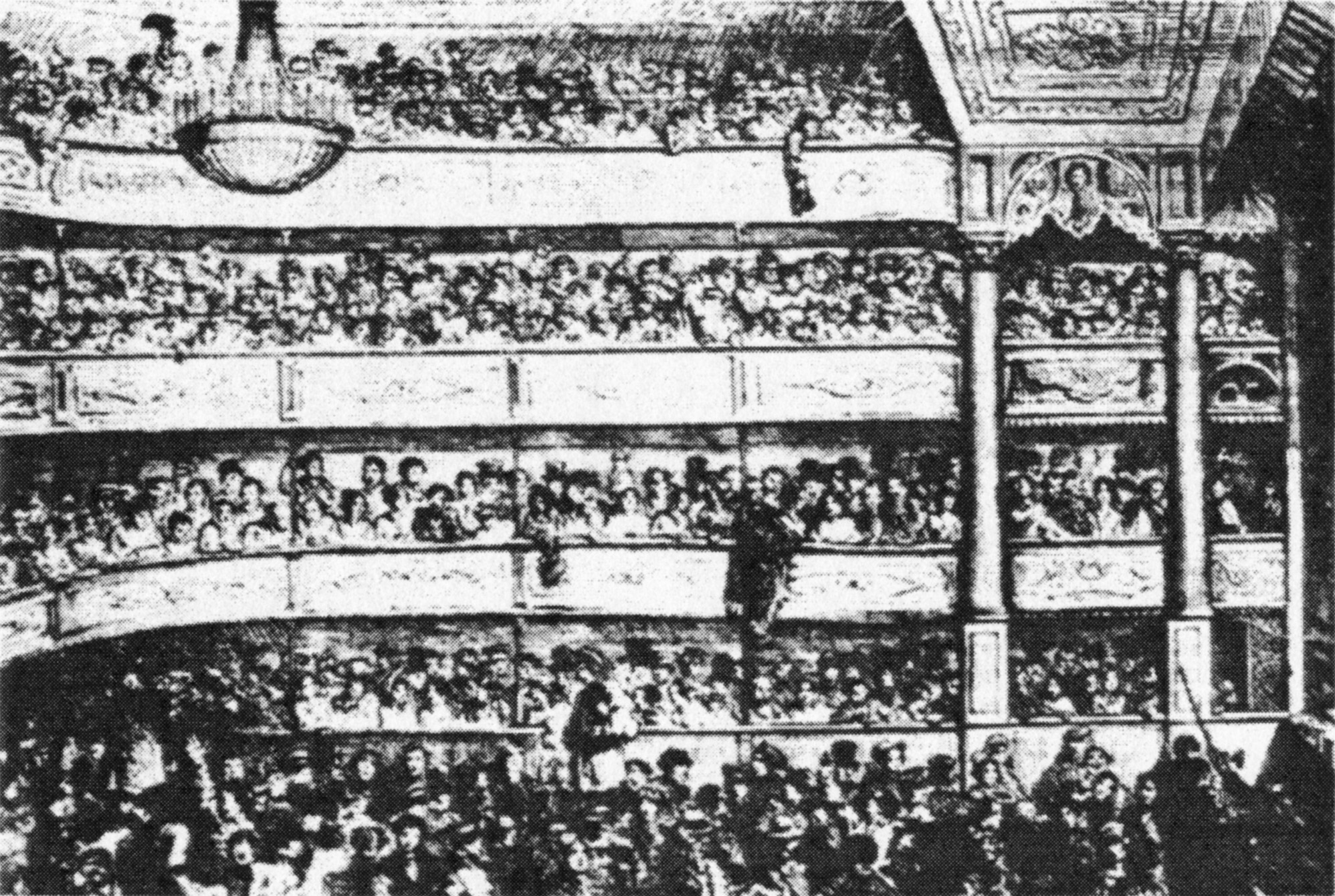 The auditorium of the Théâtre des Funambules as seen by Valentin